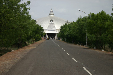 Basava Vedike 3000 capacity auditorium